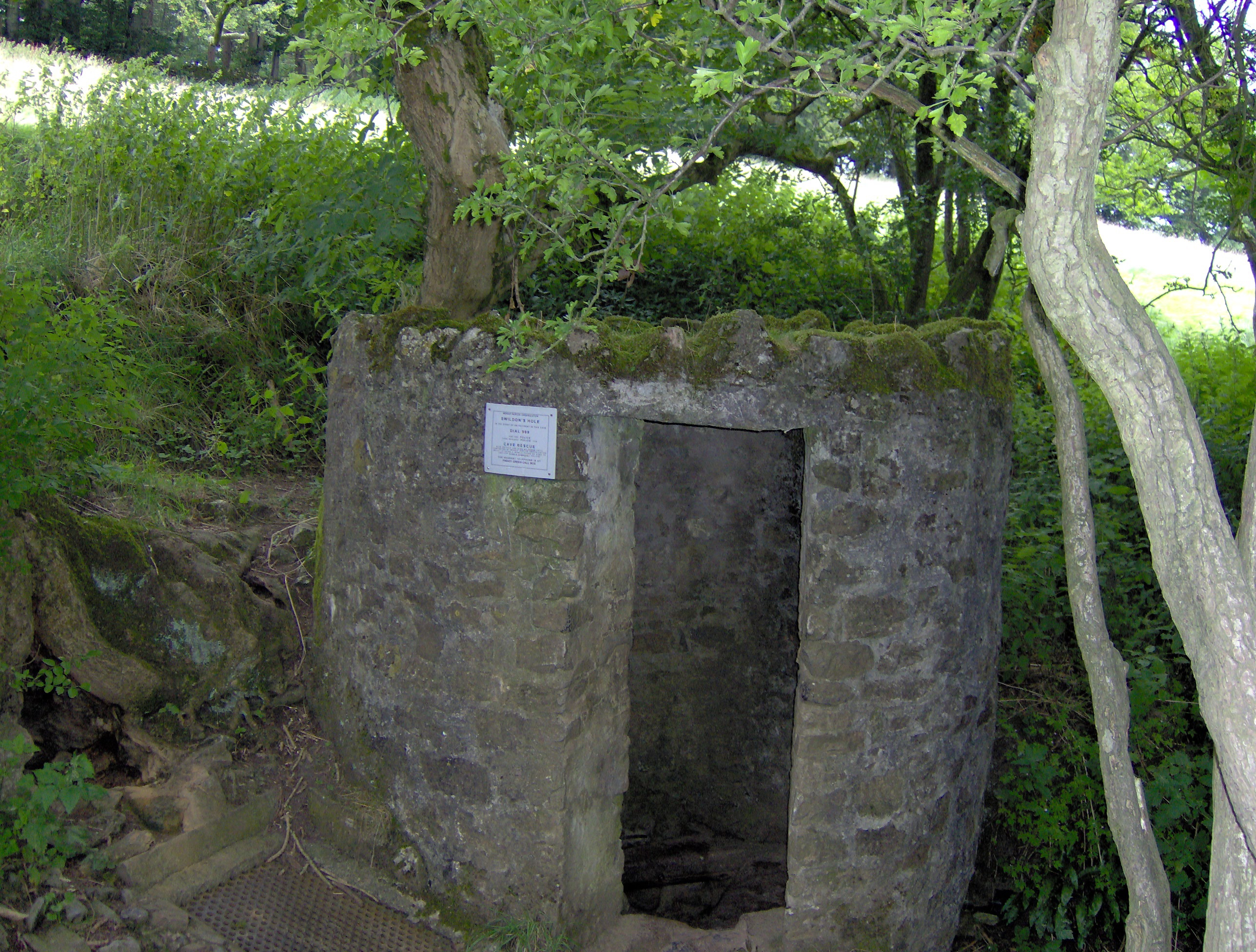 Entrance to Swildon's Hole. Taken by Rod Ward 15th August 2006